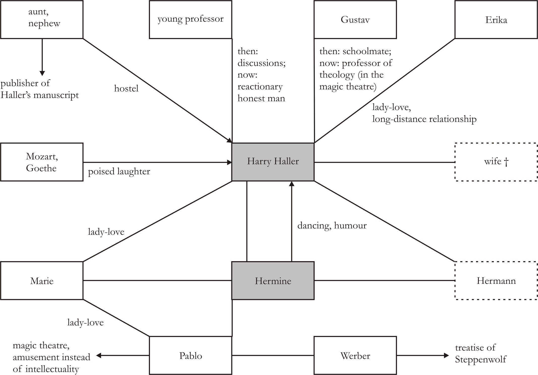 English version of the image Steppenwolf.JPG.